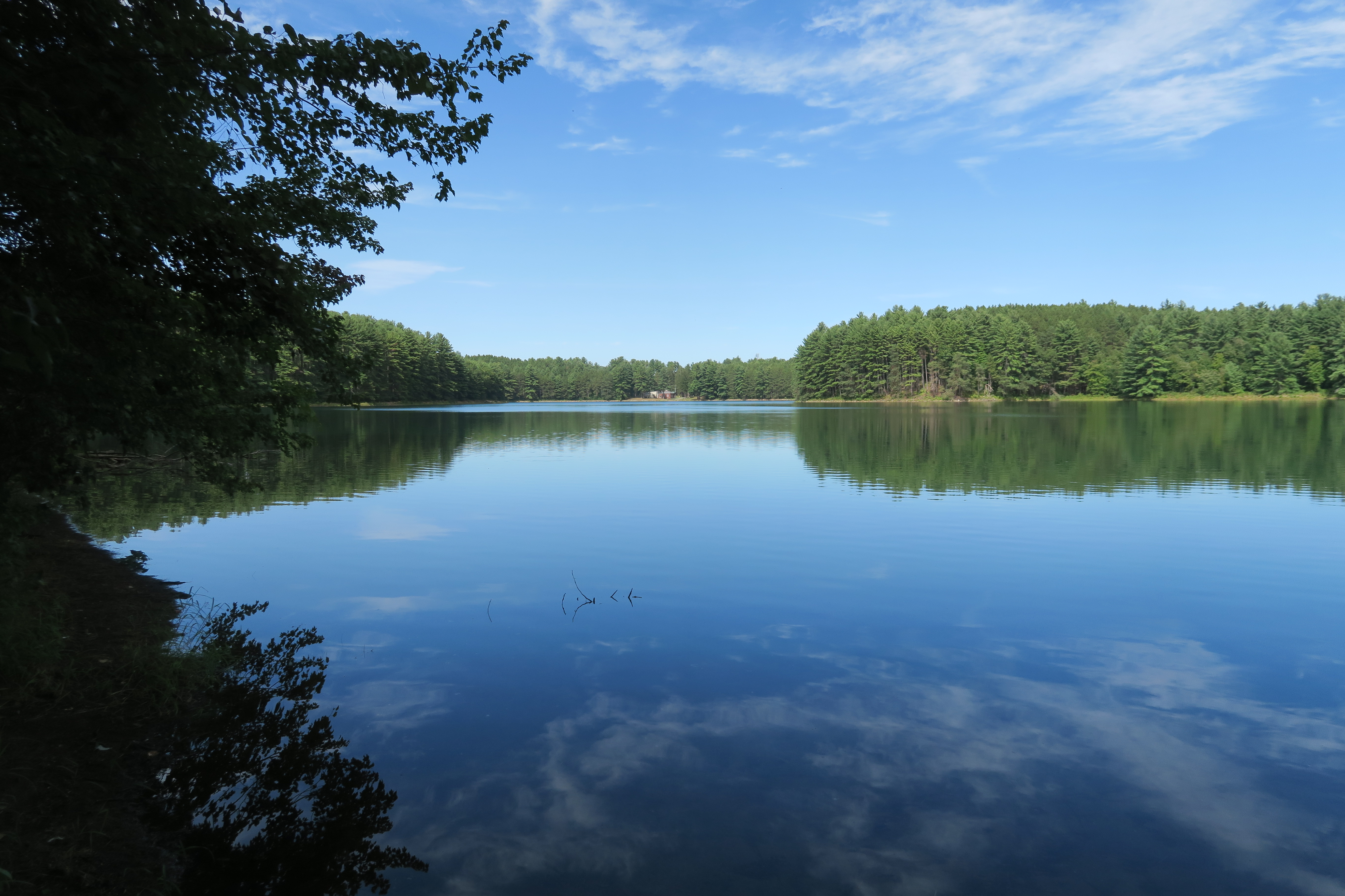 Lake Pleasant, Lake Pleasant Massachusetts